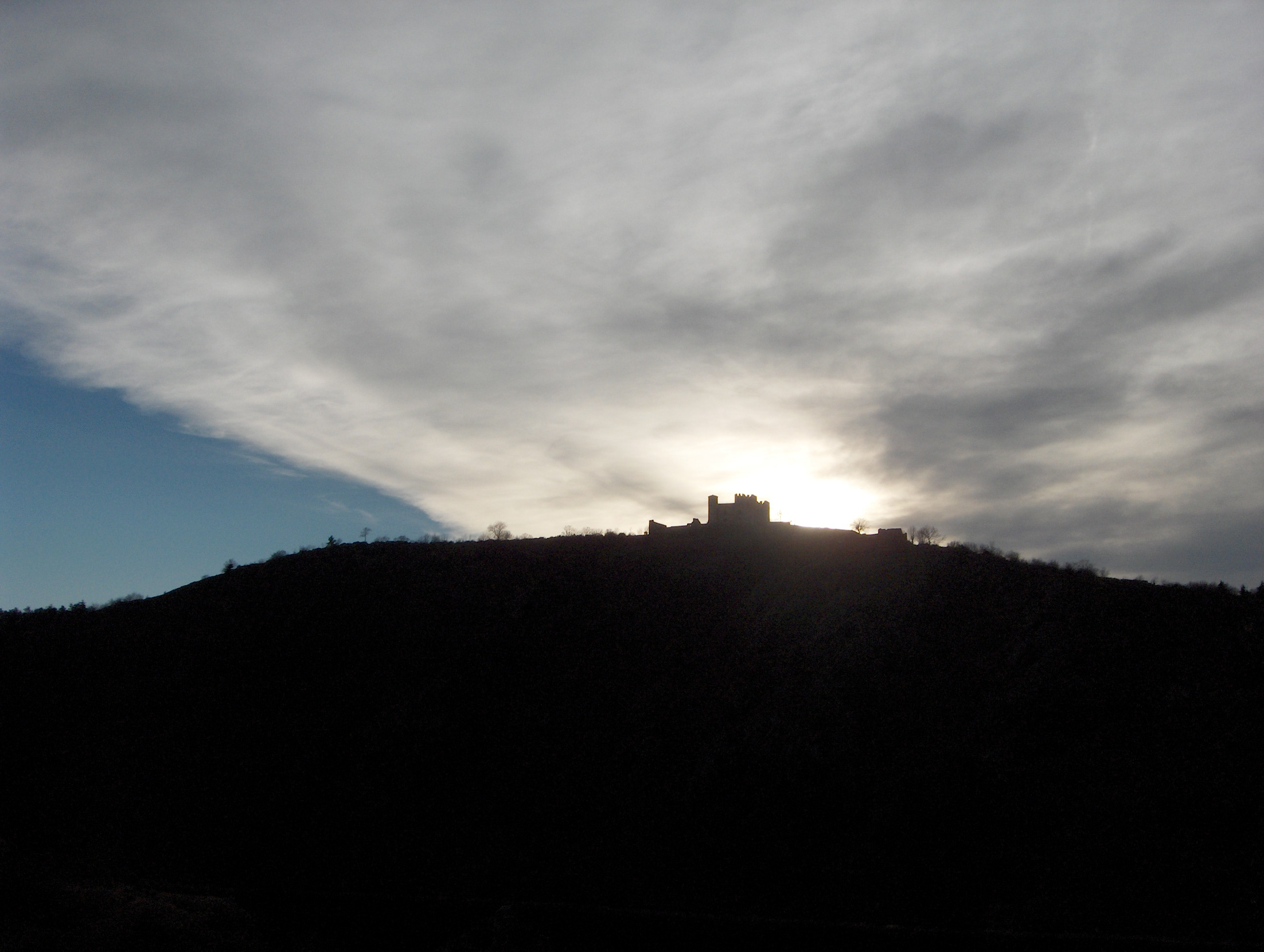 Chateau of Essalois (Loire, France).